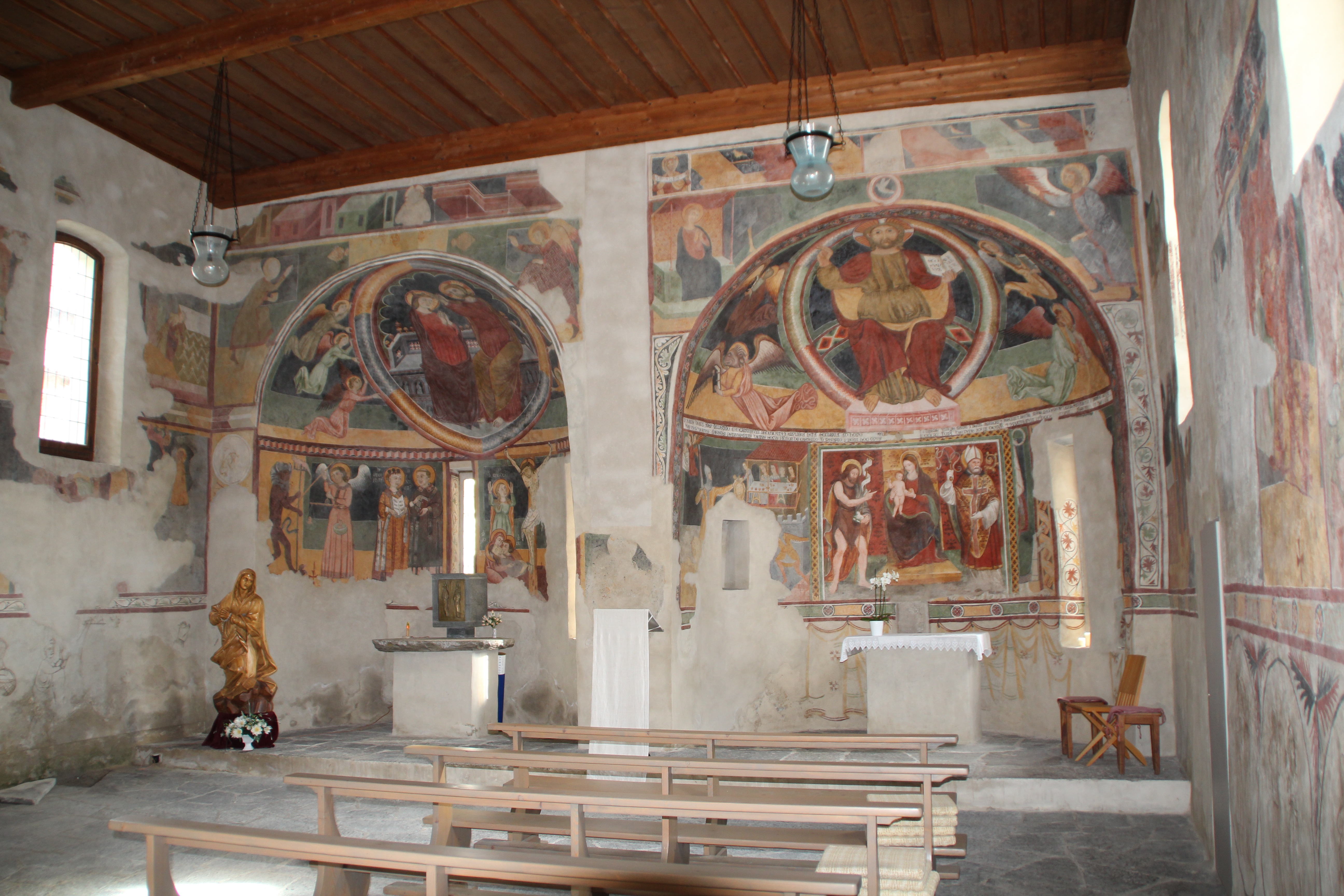 Chironico: Kirche S. Ambrogio